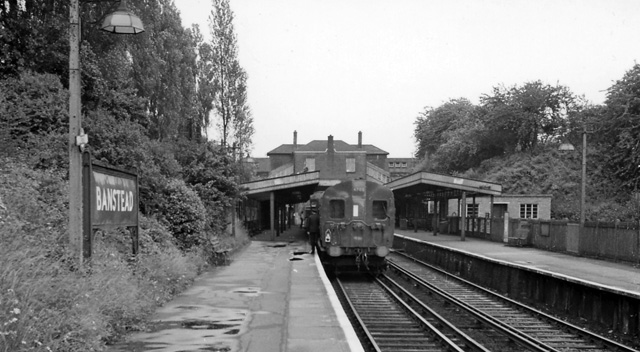 Banstead Station. View eastwards, towards Sutton; Epsom Downs - Sutton branch. Up train in station.